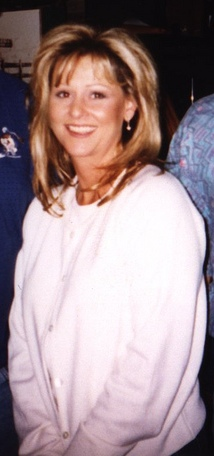 "Miss" Elizabeth Hulette after a taping of WCW Monday Nitro from Minneapolis, Minnesota in 1998.